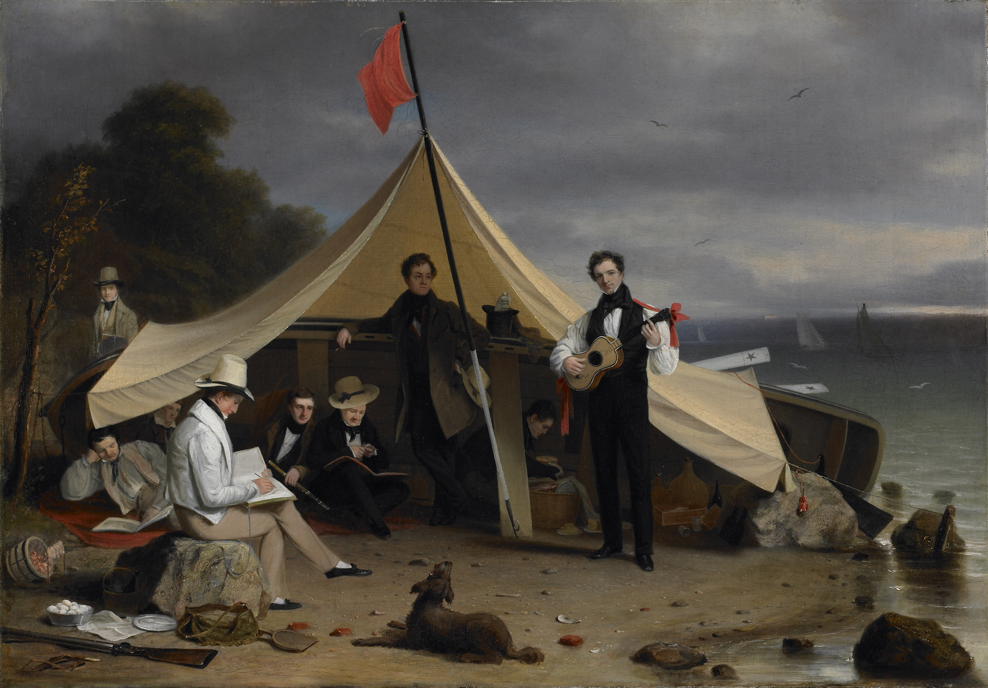 Robert Walter Weir, American, 1803–1889 The Greenwich Boat Club, 1833 Museum purchase, Fowler McCormick, Class of 1921, Fund and the Kathleen Compton Sherrerd Fund for Acquisitions in American Art; frame gift of Eli Wilner & Company 2009-1